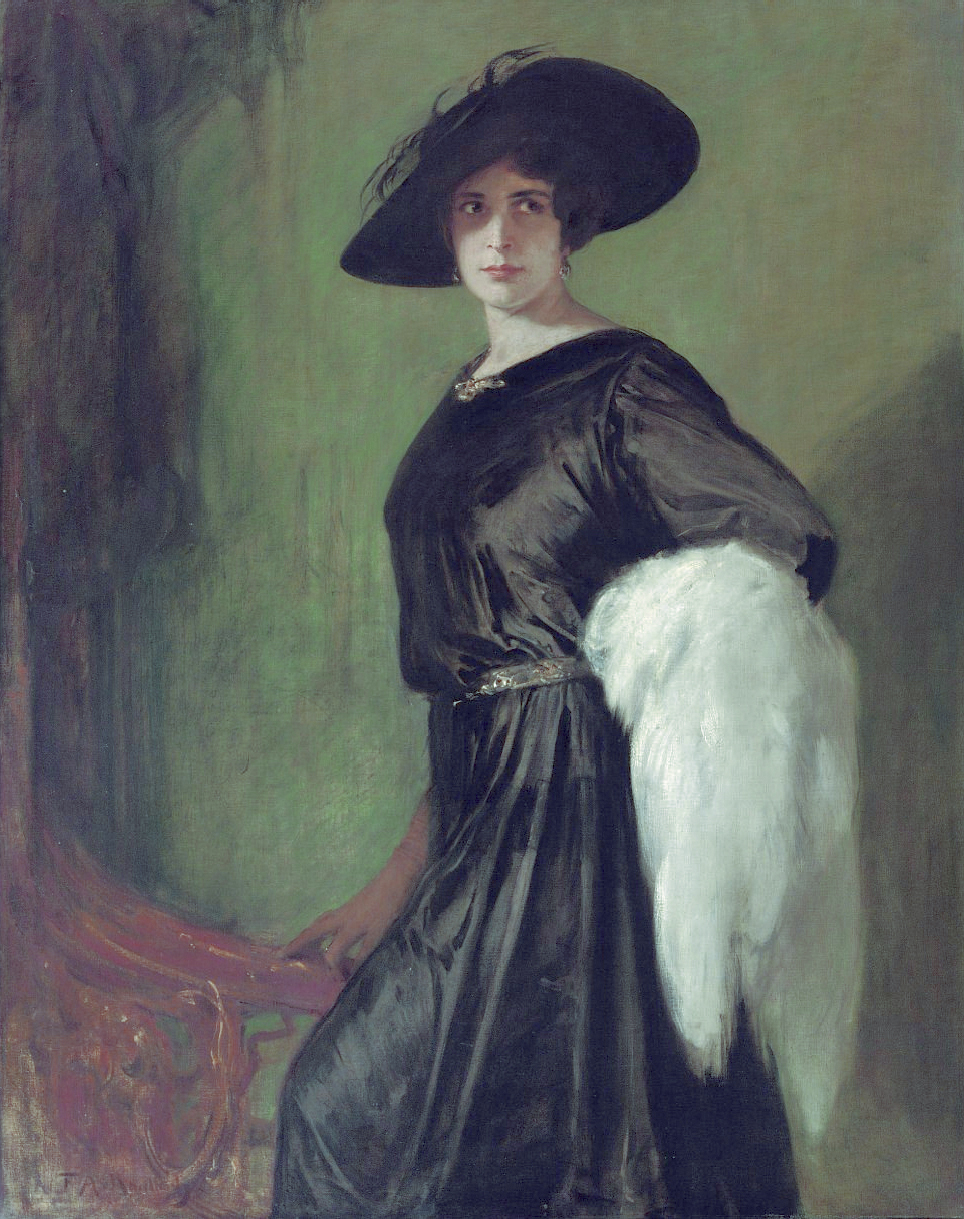 Portrait of the actress Hanna Ralph (1885-1978)